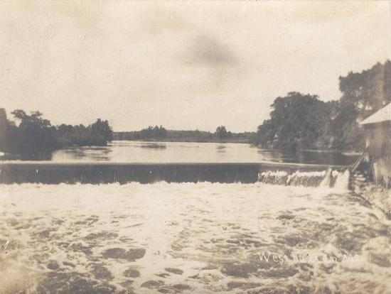 Dam at Moderation Falls, Saco River, West Buxton, ME; from a 1907 postcard.